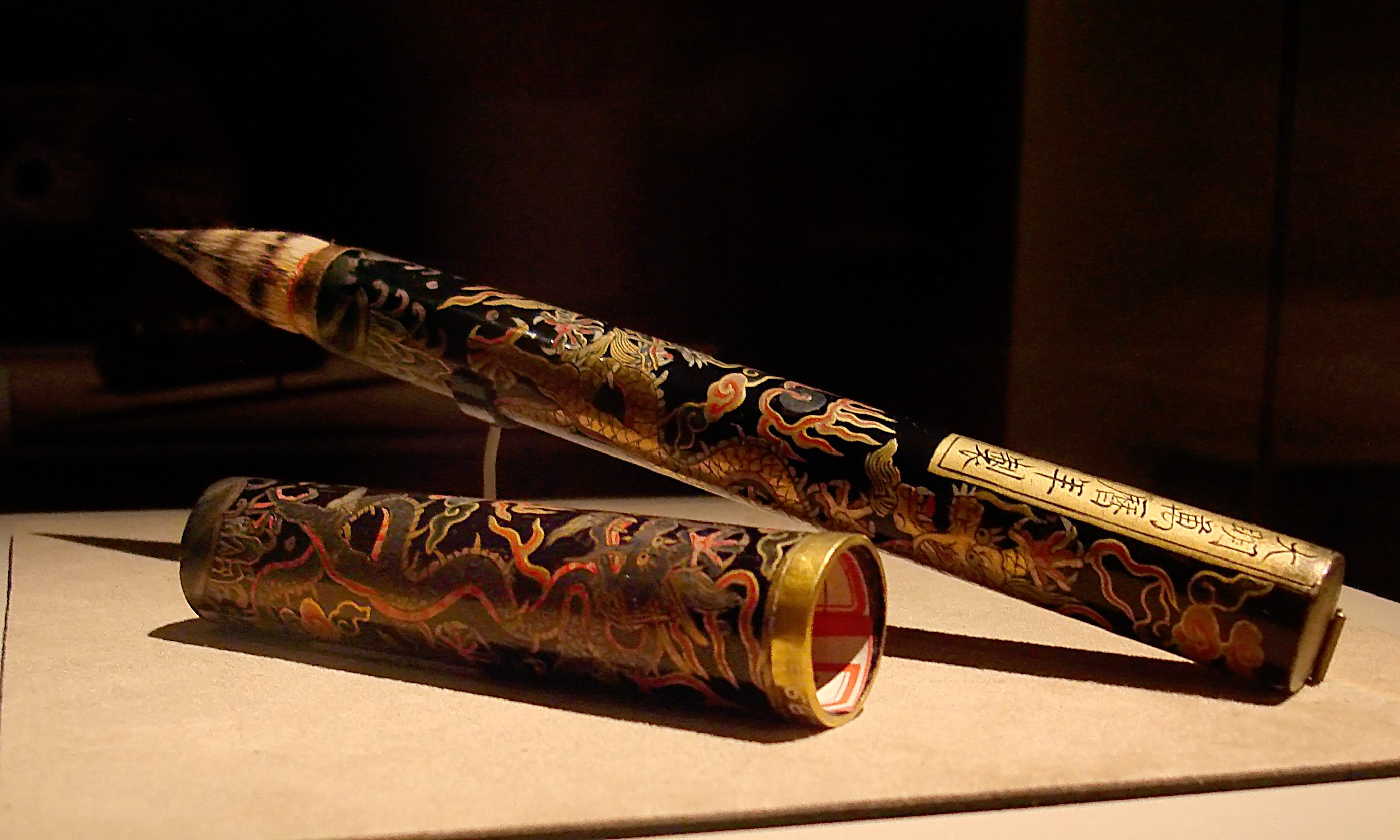 Calligraphy brush with golden dragon design. Ming Dynasty, Wanli Period (A.D. 1573 - 1629) Made of badger hair, this calligraphy brush is decorated with two dragons playing with a pearl; one is inlaid with gold foil, and the other with silver. The handle bears an inscription stating the year in which the brush was made. A magnificent piece, this work attests to the brush's place as one of the four treasures in a scholar's studio.